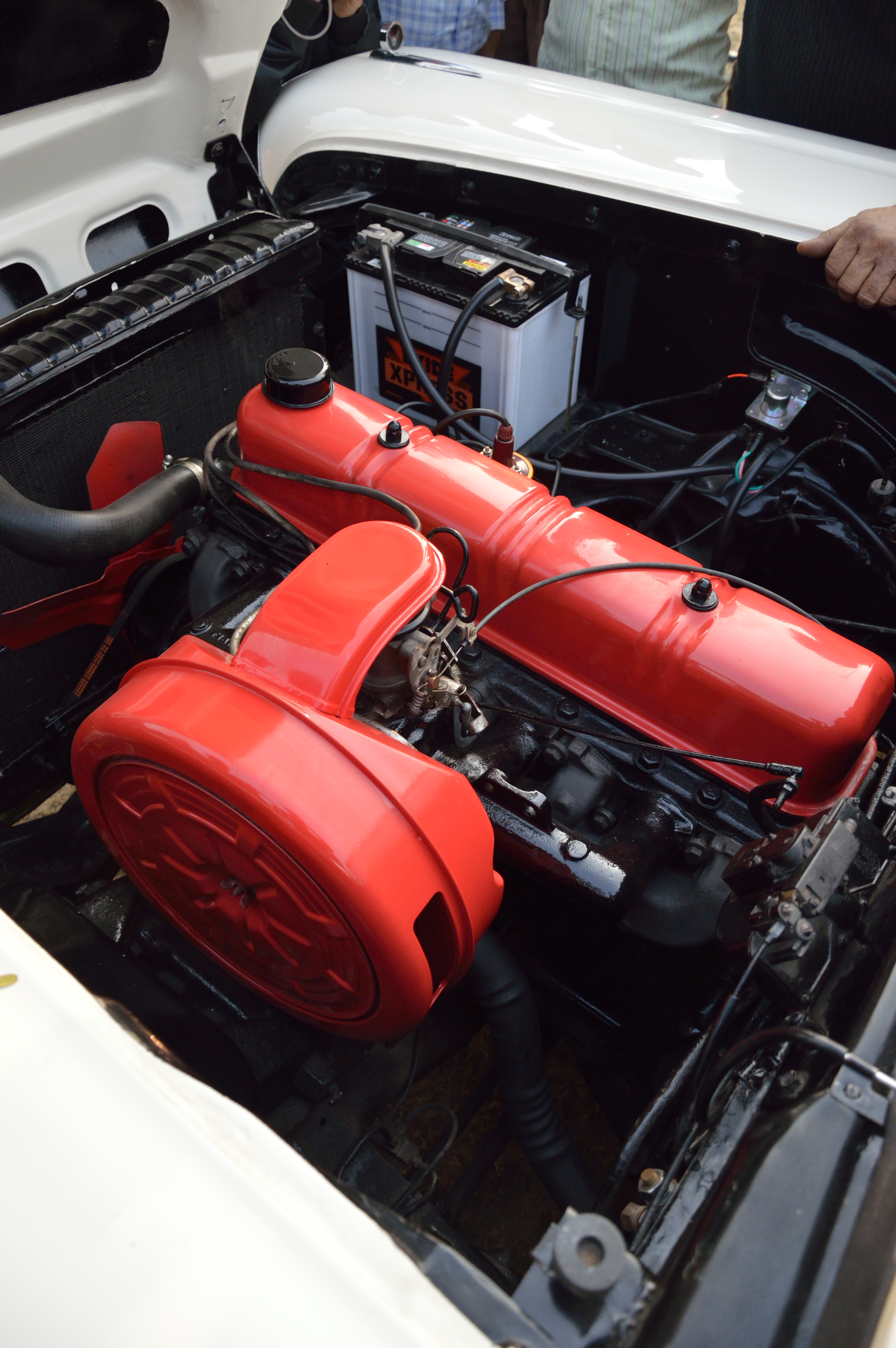 This classic car was exhibited and took part during ‘The Statesman Vintage & Classic Car Rally 2014’at the Eastern Command Sports Stadium of Fort William, Kolkata. The route was Strand road, Esplanade, Central avenue, Bhupen Bose avenue, Shaymbazaar five points crossing, APC Roy road, Moulali, CIT road, National Medical College, Park Circus seven points, Syed Amir Ali Avenue, Gariahat, Rashbehari Avenue, SP Mukherjee road, Hazra crossing, Ashutosh Mukherjee road, Exide crossing, AJC Bose road again Strand road and back to the ECS stadium. The rally was held at the morning on Sunday, 19 January 2013 at the ECS Stadium, where 175 entrants were registered with cars and bikes manufactured from 1906 to 1971. This one day festival usually takes place on the second Sunday of every January (but this time it is observed on third Sunday) in Kolkata since 1968 with full of period costume and cultural period pieces. This classic car is owned by Kanoria and driven by Ranjan Sarkar.